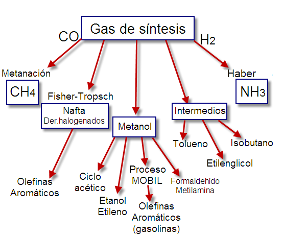 Applications of syntegas